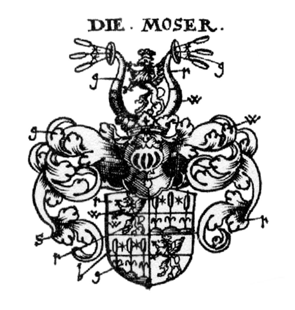 Coat of Arms from Moser (von Ebreichsdorf), Austria